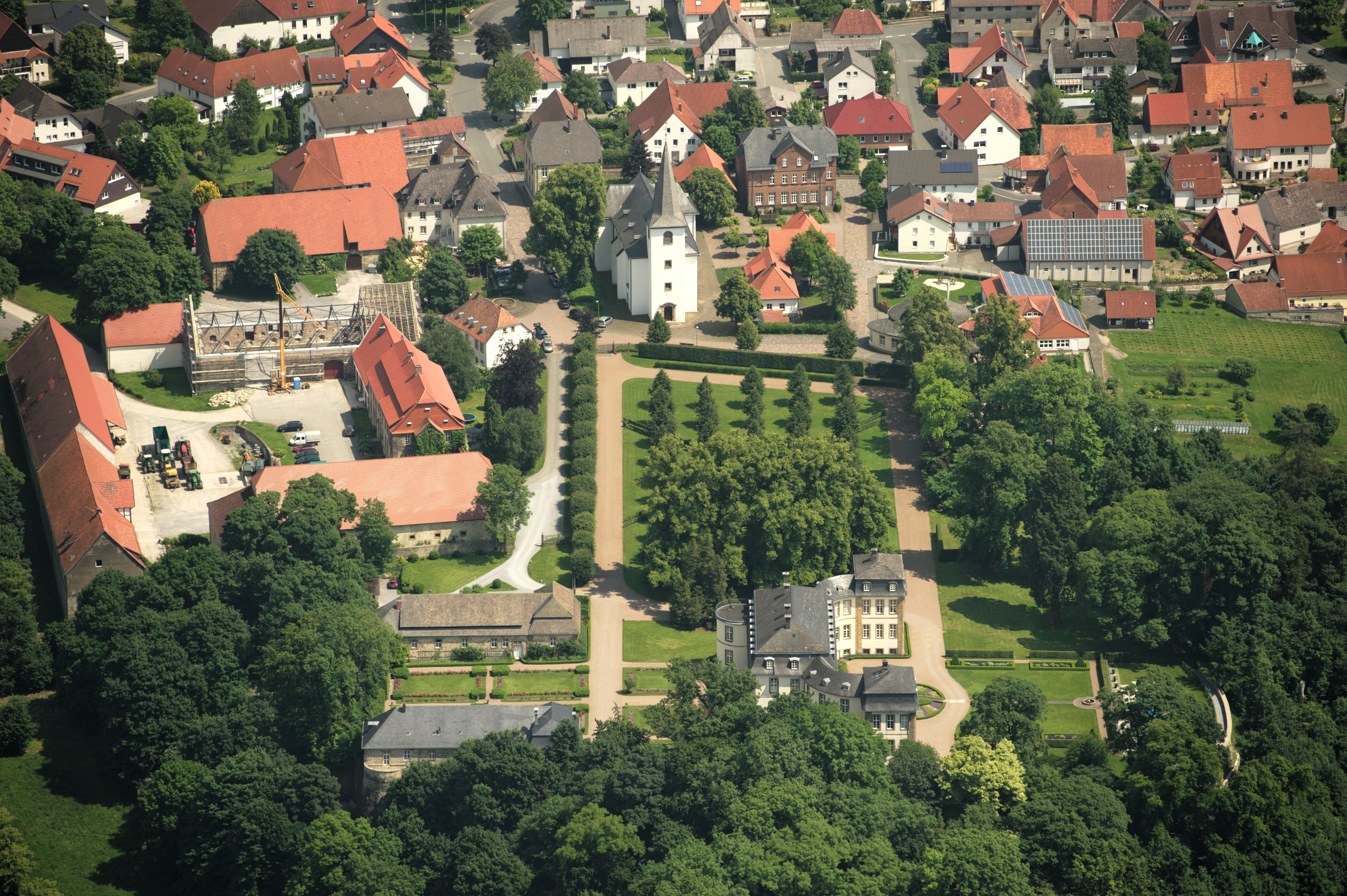 Fotoflug Sauerland-Ost – Bad Wünnenberg The making of this document was supported by the Community-Budget of Wikimedia Germany.